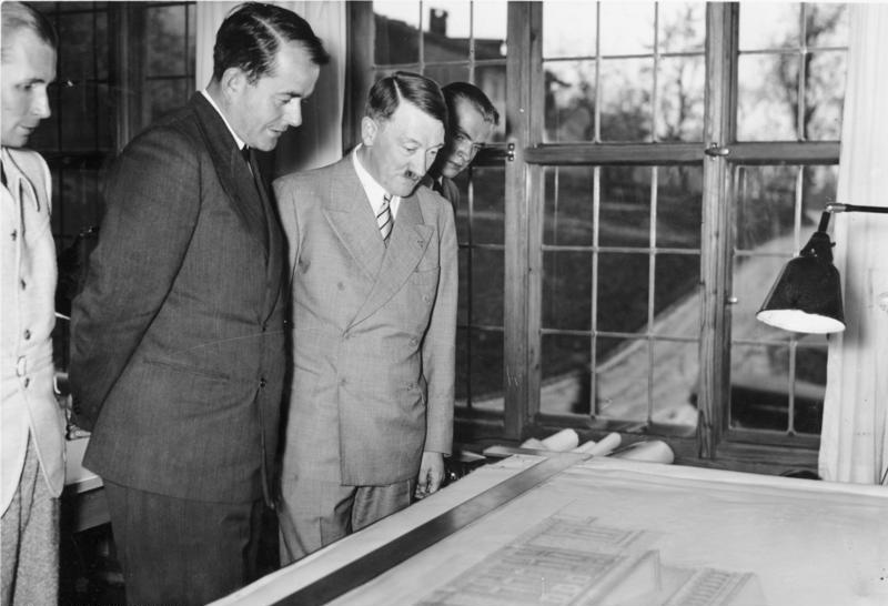 Hitler and Speer at Obersalzberg looking at a plan for the new Opera of Linz.